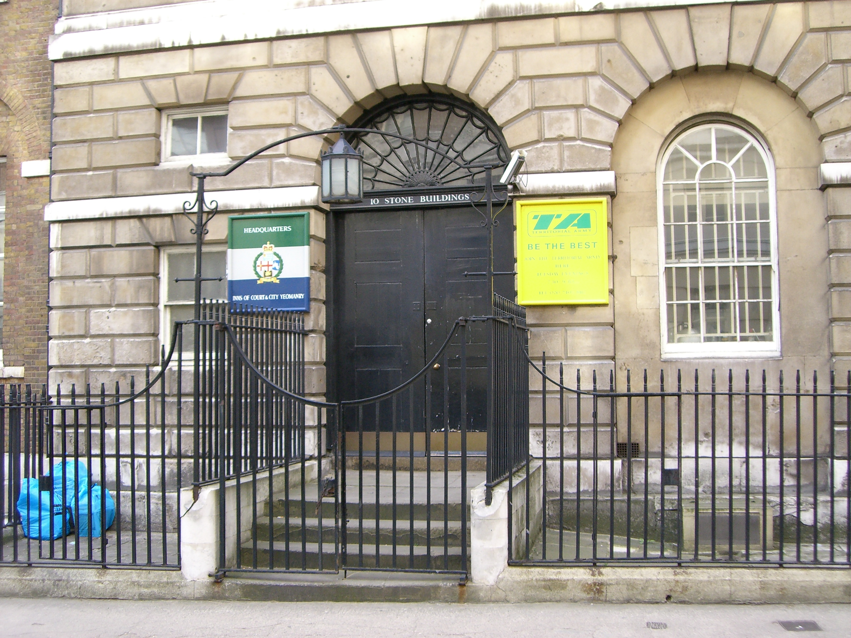 68 Signal Squadron Squadron Headquarters, 10 Stone Buildings, Lincoln's Inn, London WC2A 3TG Photo taken by User:Edward on 19 March 2006 with a Casio EX-S600.